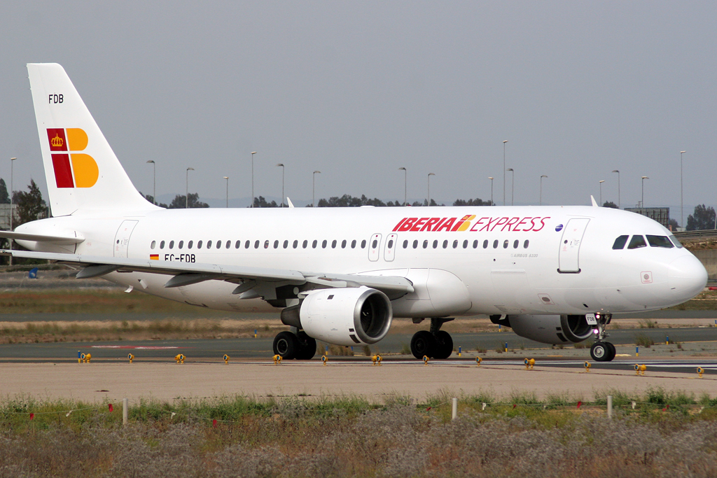 Iberia Express starting operations. First day at Sevilla